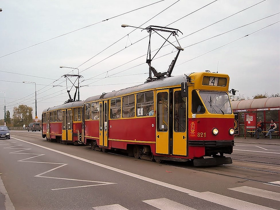 Konstal 13N 821+818, tram line 4, Warsaw, 2008